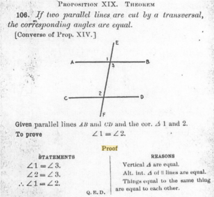 Taken from Patricio G. Herbst, "Establishing a Custom of Proving in American School Geometry: Evolution of the Two-Column Proof in the Early Twentieth Century", Educational Studies in Mathematics, Vol. 49, No. 3 (2002), pp. 283-312. Herbst says, "Photographed by the author from Schulze and Sevenoak, 1913, p. 53, Macmillan publishers." This paper is available from